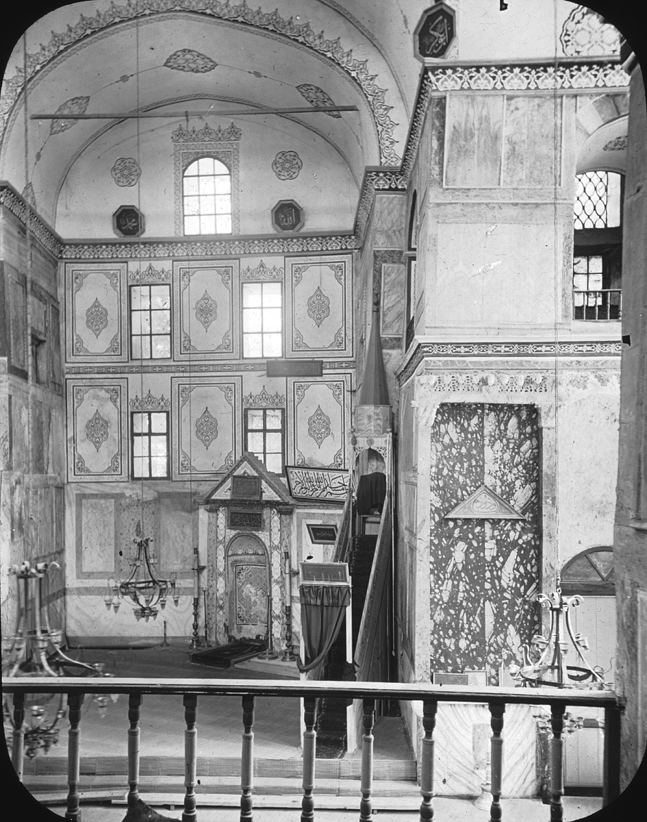 St. Mary Diaconissa, Istanbul, Turkey, 1903. St. Mary Diaconissa; Series 1903; View from right gallery; Century 36. Brooklyn Museum Archives, Goodyear Archival Collection (S03_06_01_003 image 966).